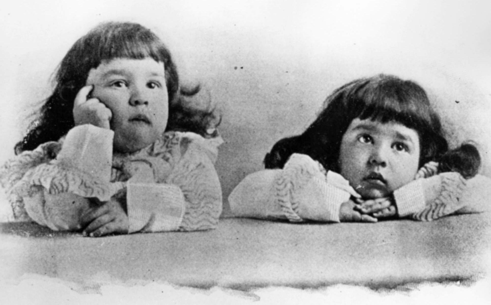 Photograph/portrait of Miguel and Carlos Reavis, the children of Mr. & Mrs. James Addison Reavis, taken in Santa Fe (N.M.)